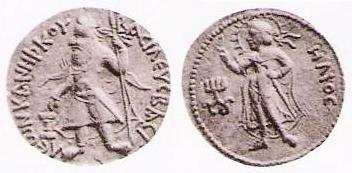 Coin of Kanishka, with the divinity Helios. Greek-language legend: Obv. BASILEUS BASILEON KANISHKOY "King of Kings Kanishka", Rev. ILIOS "Helios". From "Coins of the Indo-Greeks", Whitehead, 1914 edition. Public domain.